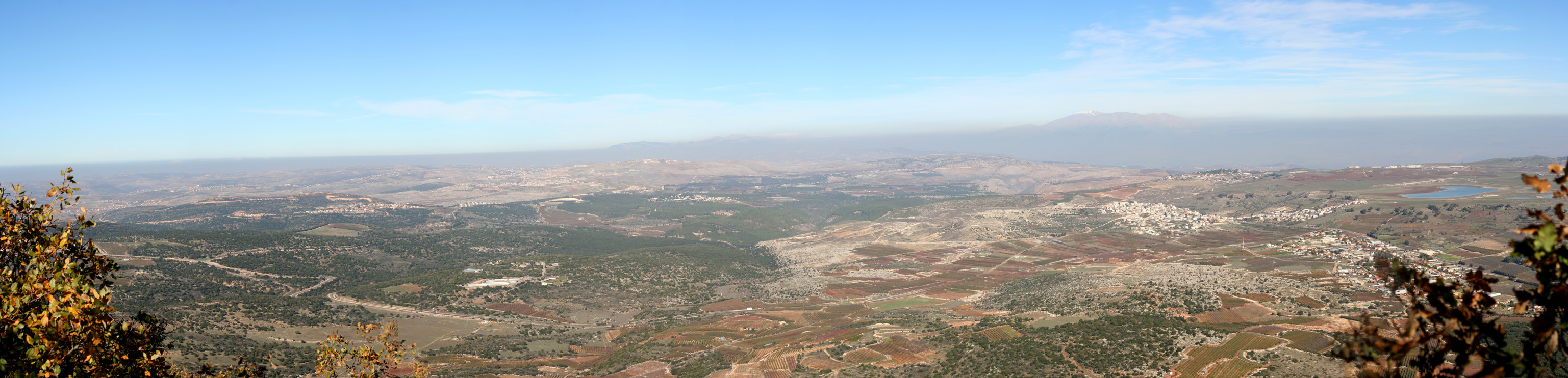 Panoramic view from the top of Mt. Meron, looking mainly north Beivushtang 08:26, 16 November 2006 (UTC)